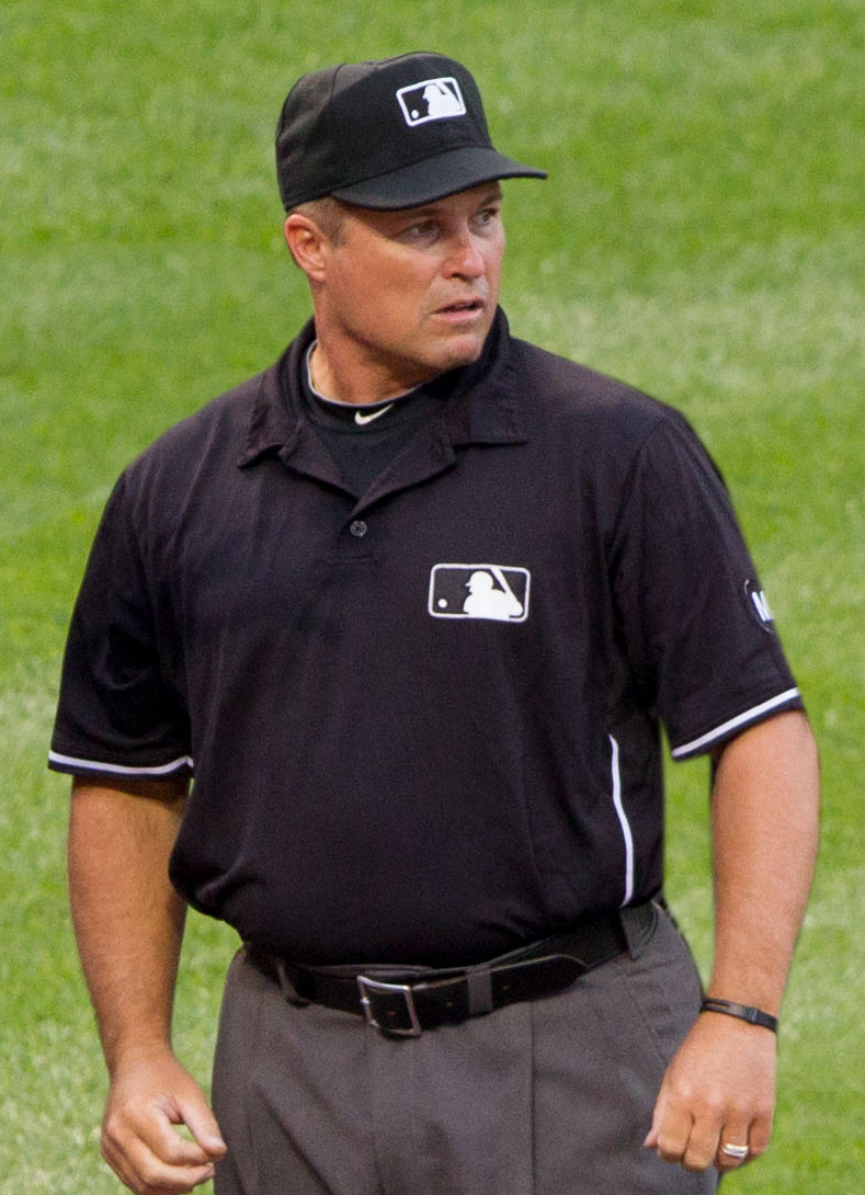 MLB umpire Marvin Hudson - Athletics at Orioles July 27, 2012